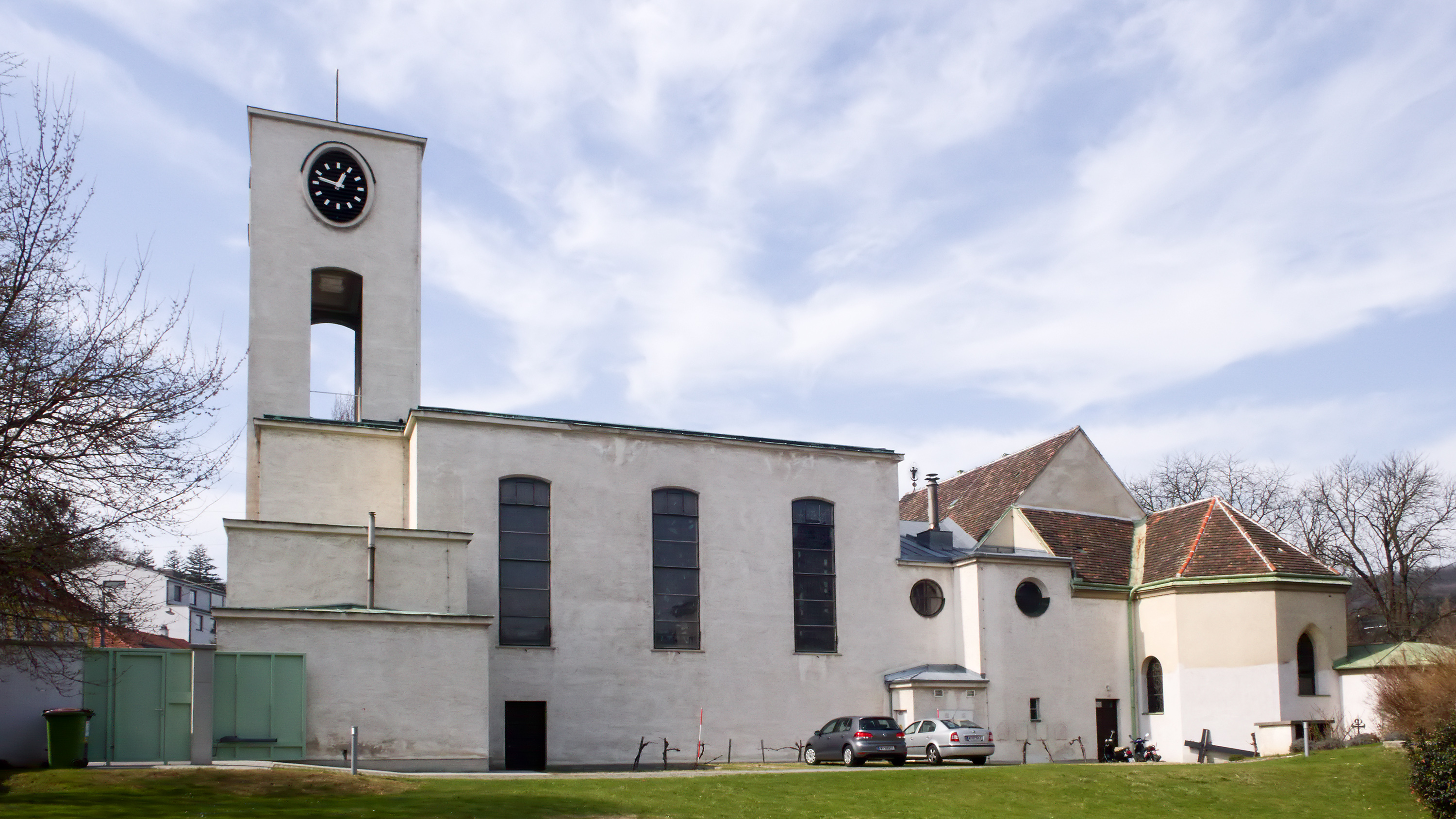 Pfarrkirche Dornbach in Vienna Hernals